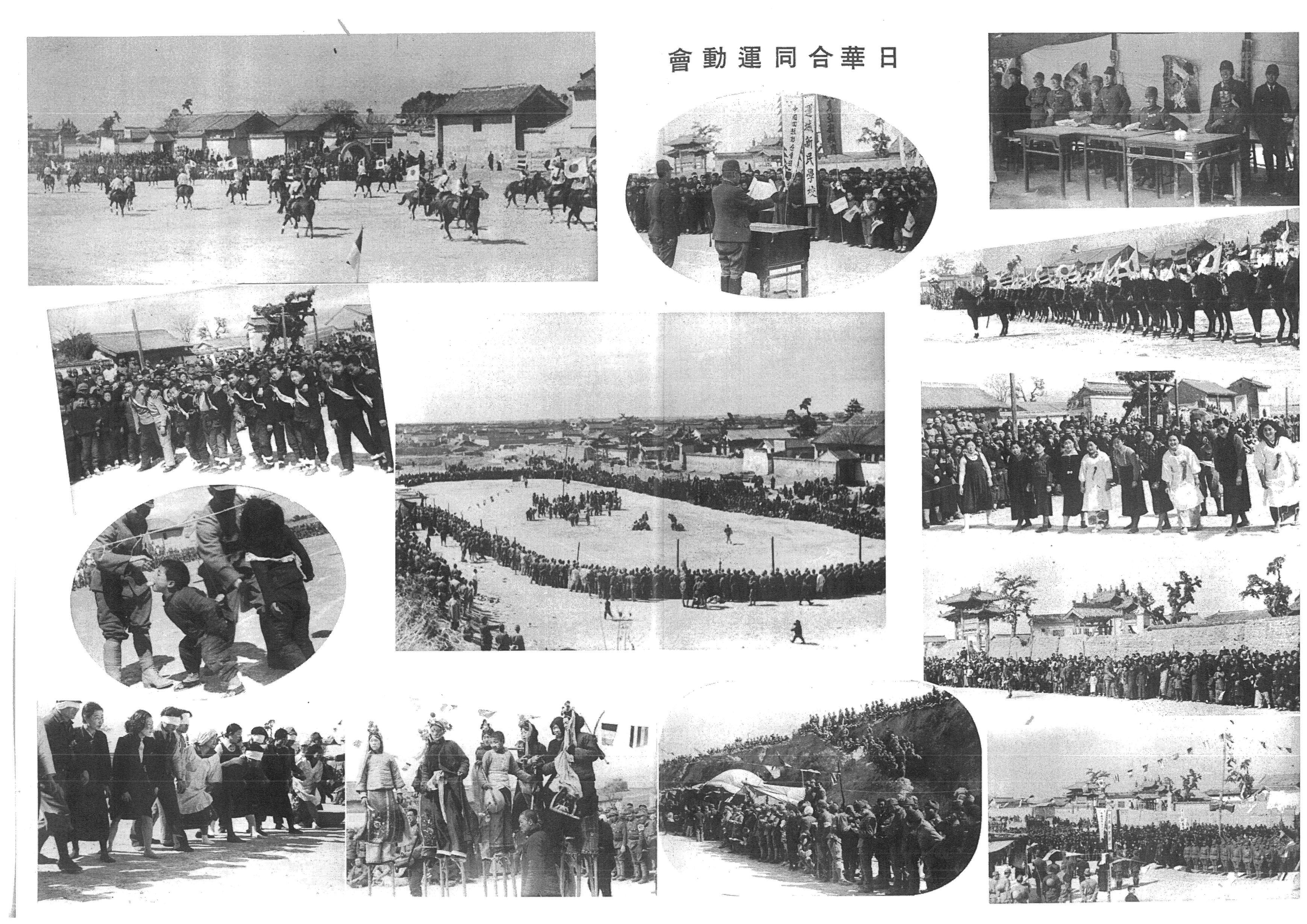 Japan-China sports festival（Yuncheng, Shanxi Province, China）